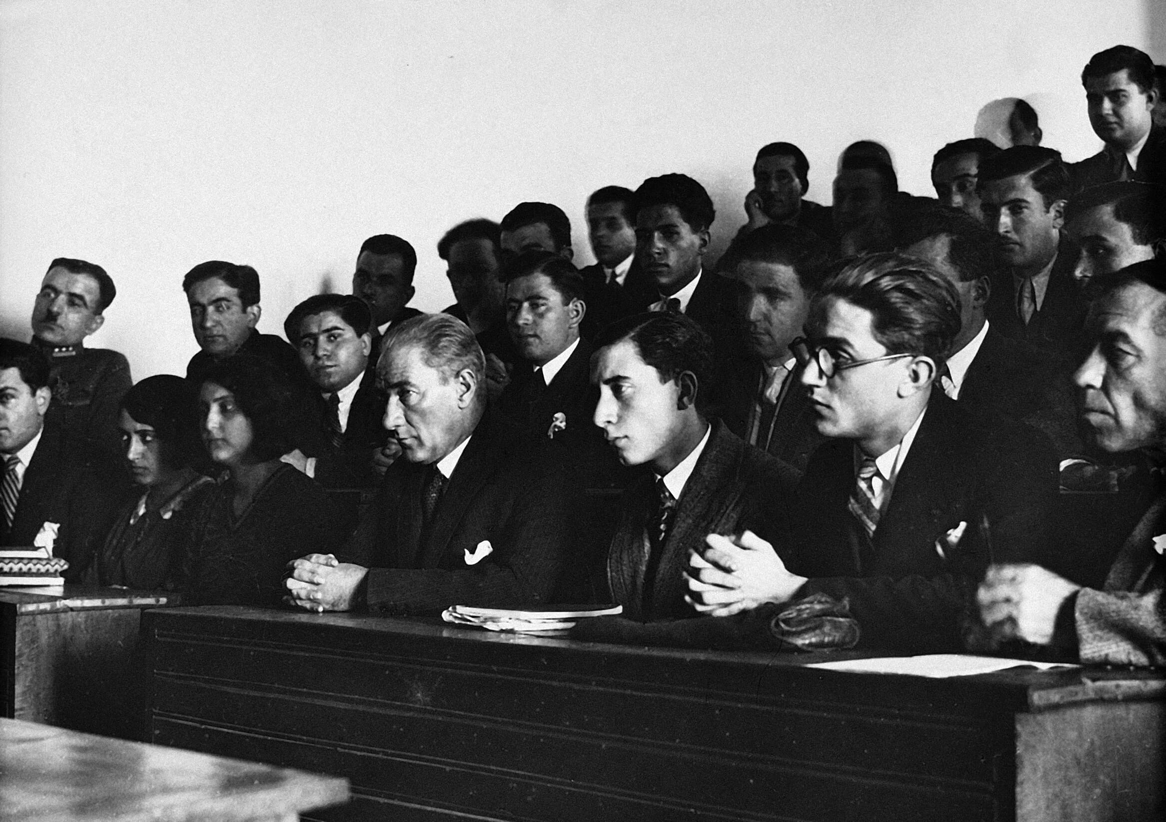 Mustafa Kemal (Atatürk) in Istanbul University Faculty of Law, 15 December 1930.